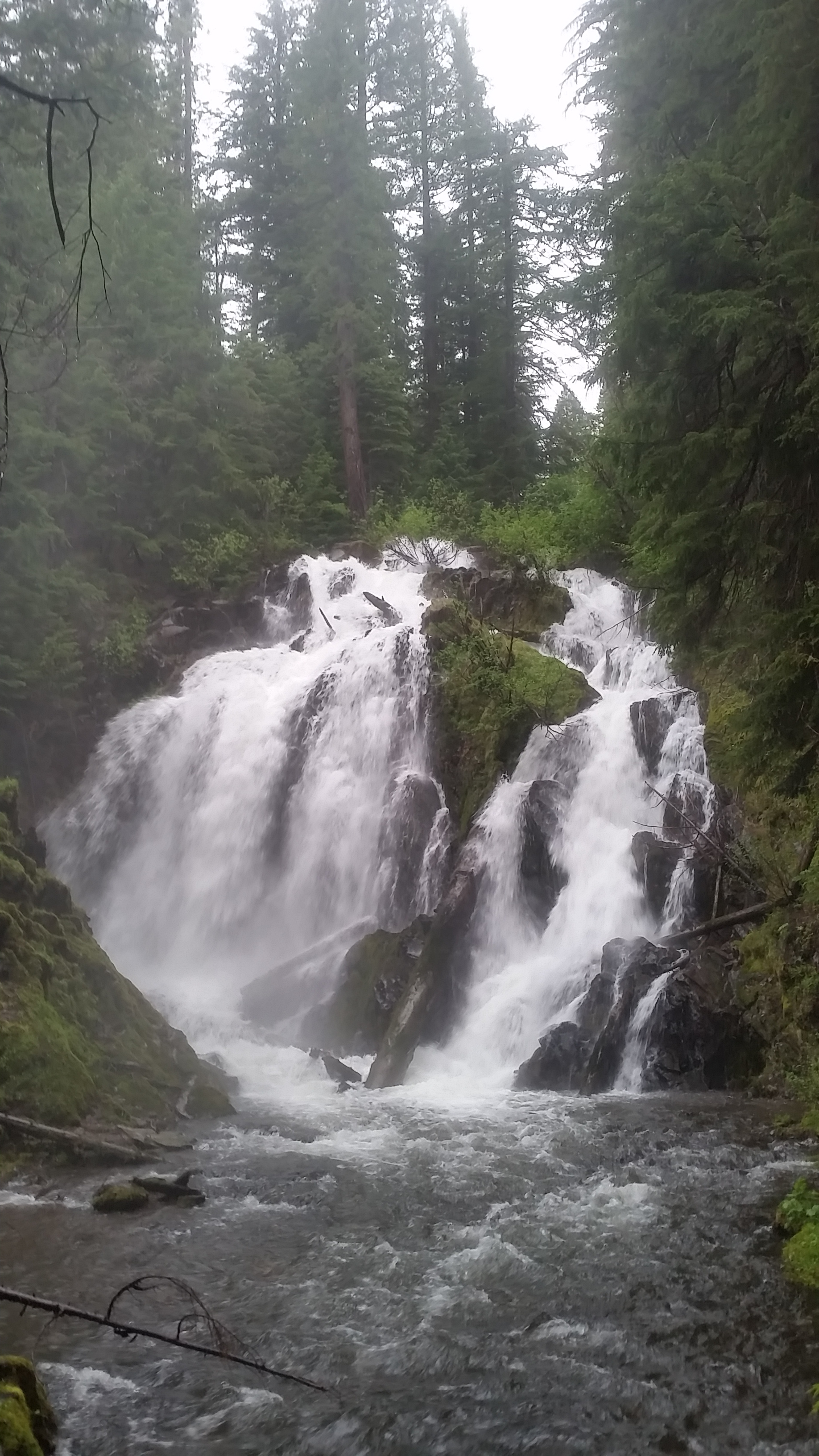 National Creek Falls, Rogue River, Douglas Co, OR